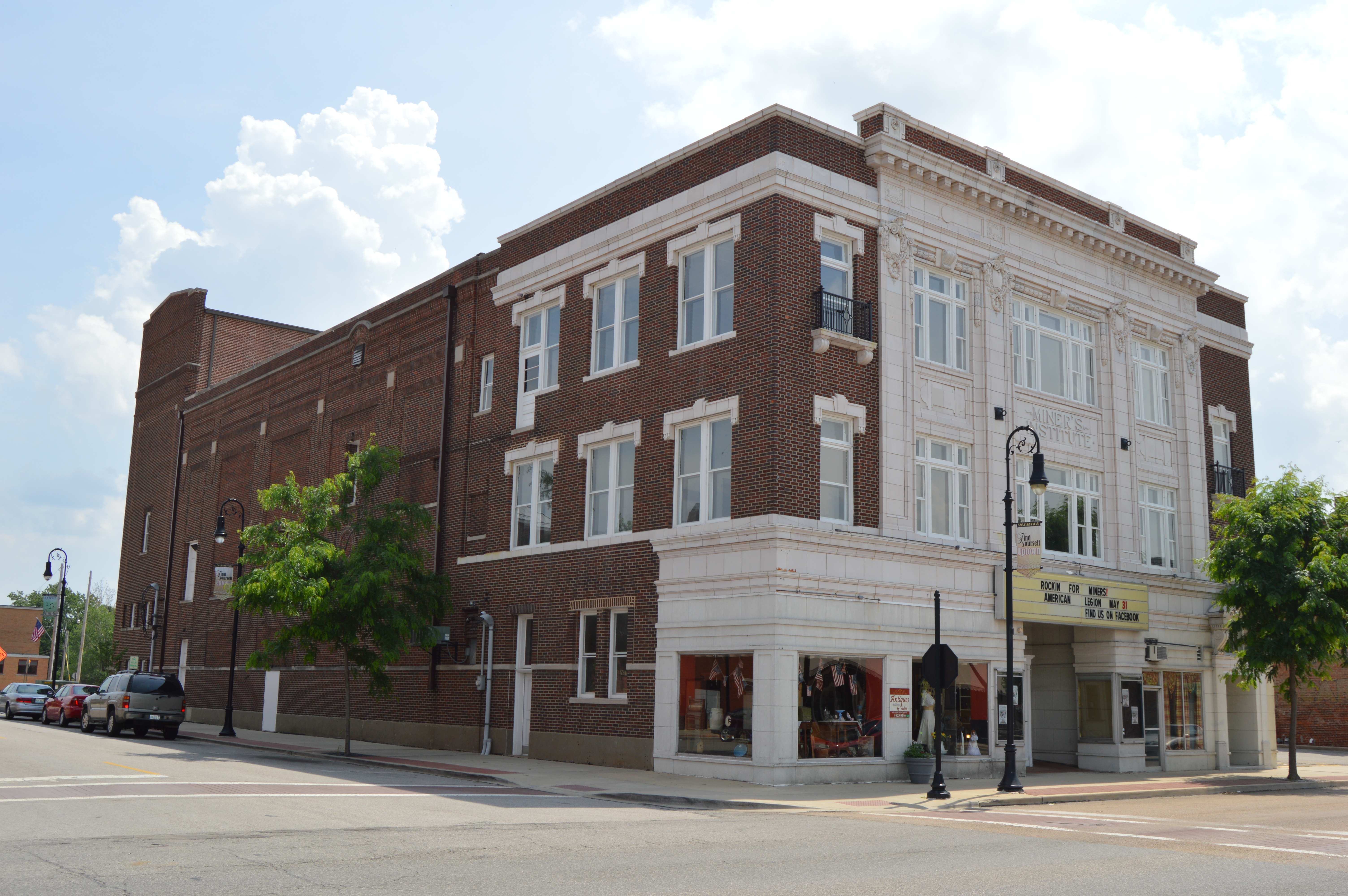 Front and eastern side of the Miners Institute Building, located at 204 W. Main Street in Collinsville, Illinois, United States. Built in 1918, it is listed on the National Register of Historic Places.